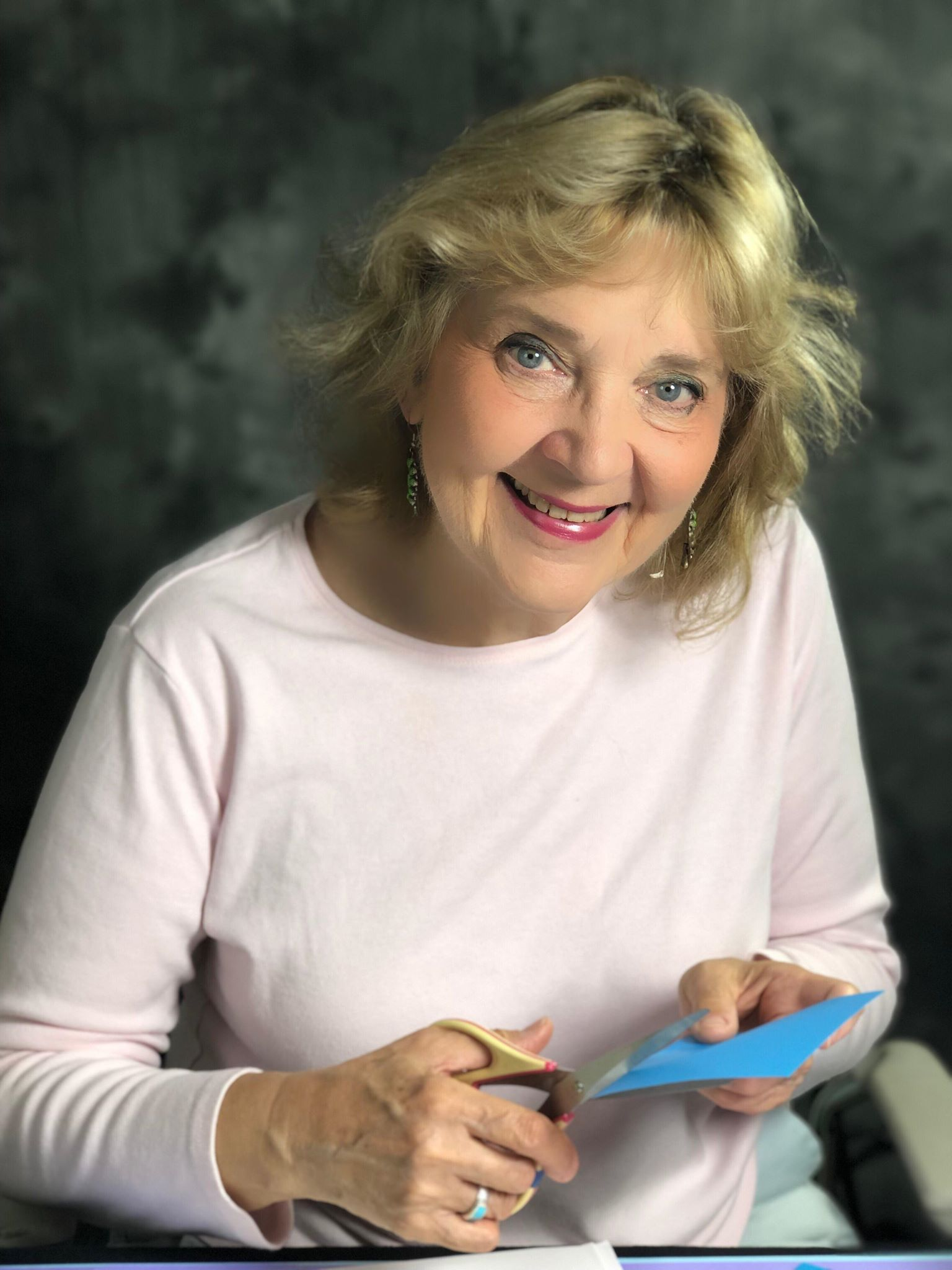 Teri Suzanne in the studio 2019